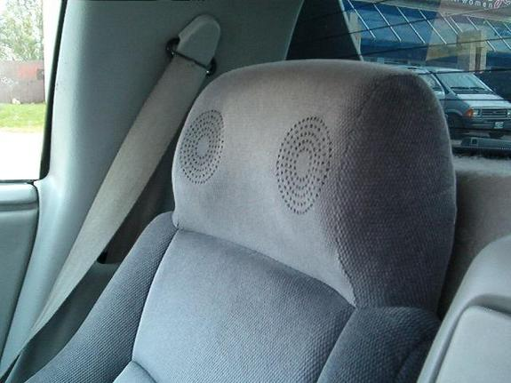 A picture of the stereo speakers inbedded in the headrest of an early Pontiac Fiero